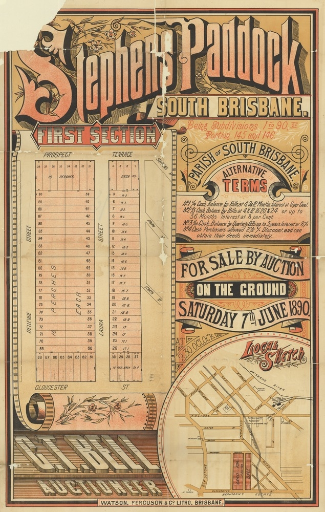 Creator: George. T Bell, Auctioneer. Location: Highgate Hill, Brisbane, Queensland. Description: Land for sale is subdivisions 1 to 90 of portions 145 and 146. Parish of South Brisbane. Plan of allotments for sale by auction on the ground Saturday 7th June, 1890. Estate covers area now in Highgate Hill. 82 x 54 cm. Published by Watson, Ferguson & Co. lithographer (Brisbane). Read more about SLQ's map collections: View this image at the State Library of Queensland: Information about State Library of Queensland’s collection: You are free to use this image without permission. Please attribute State Library of Queensland.